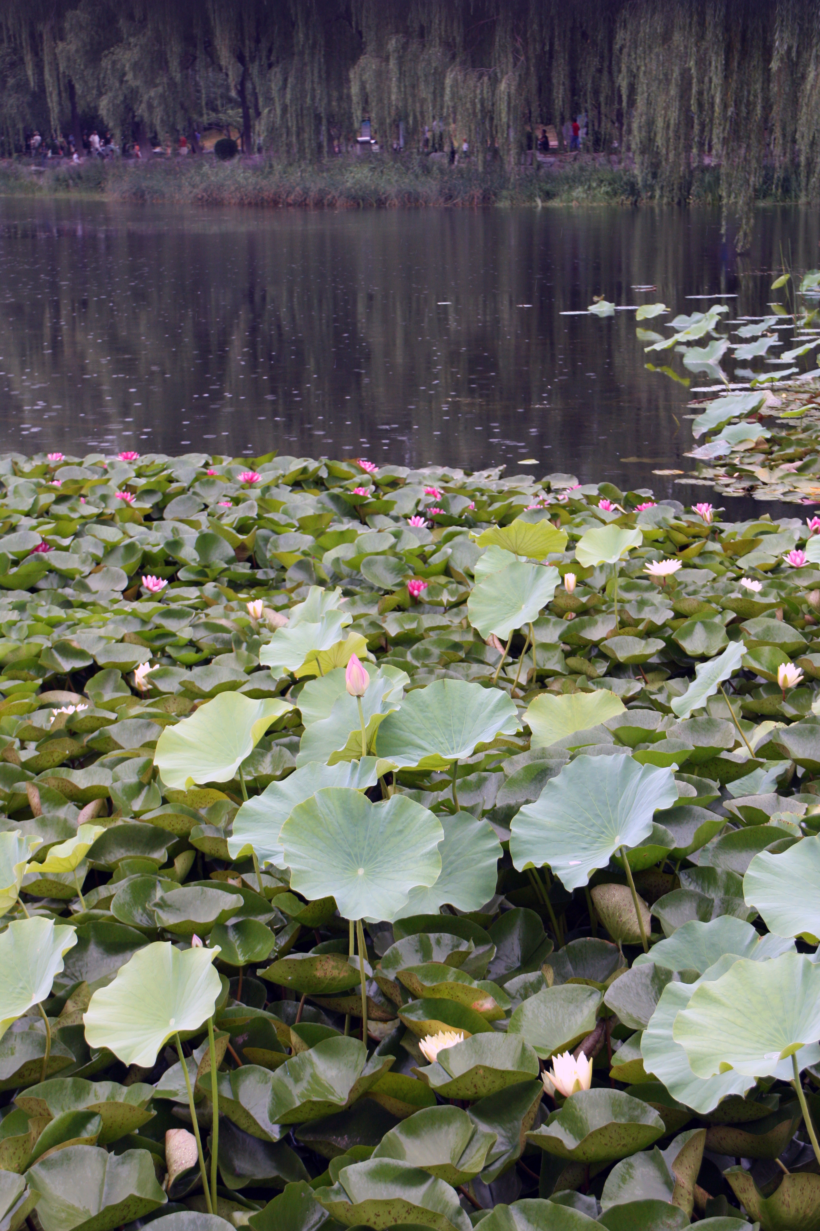 Lotus flower in Beijing Yuan-Ming Garden